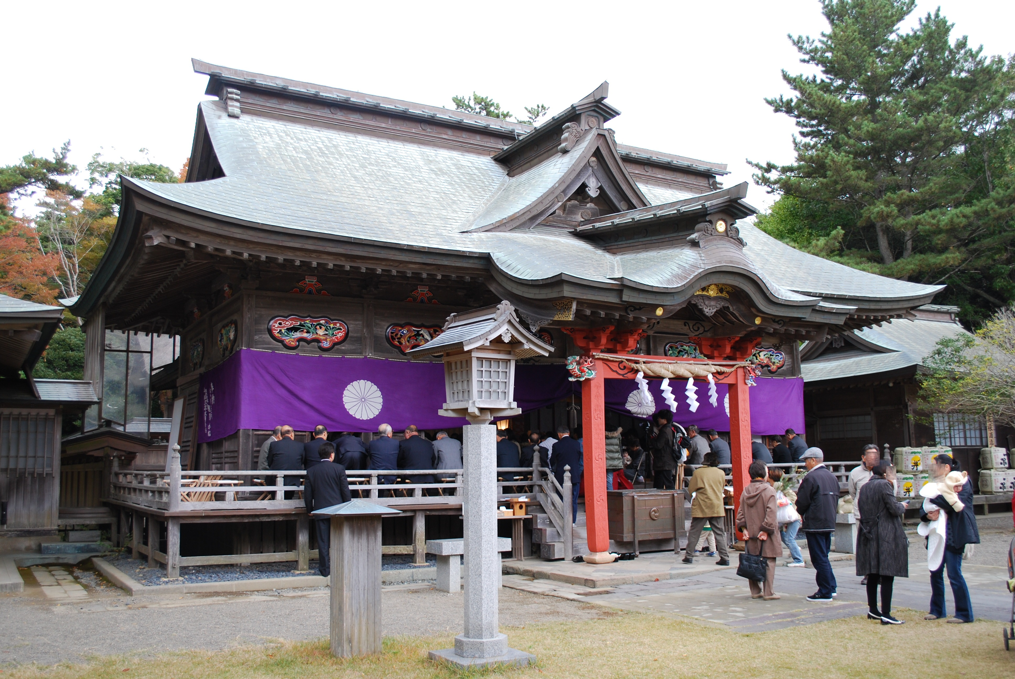 Haiden (worship hall) of Oarai Isosaki Shrine in Oarai Town, Ibaraki Prefecture, Japan